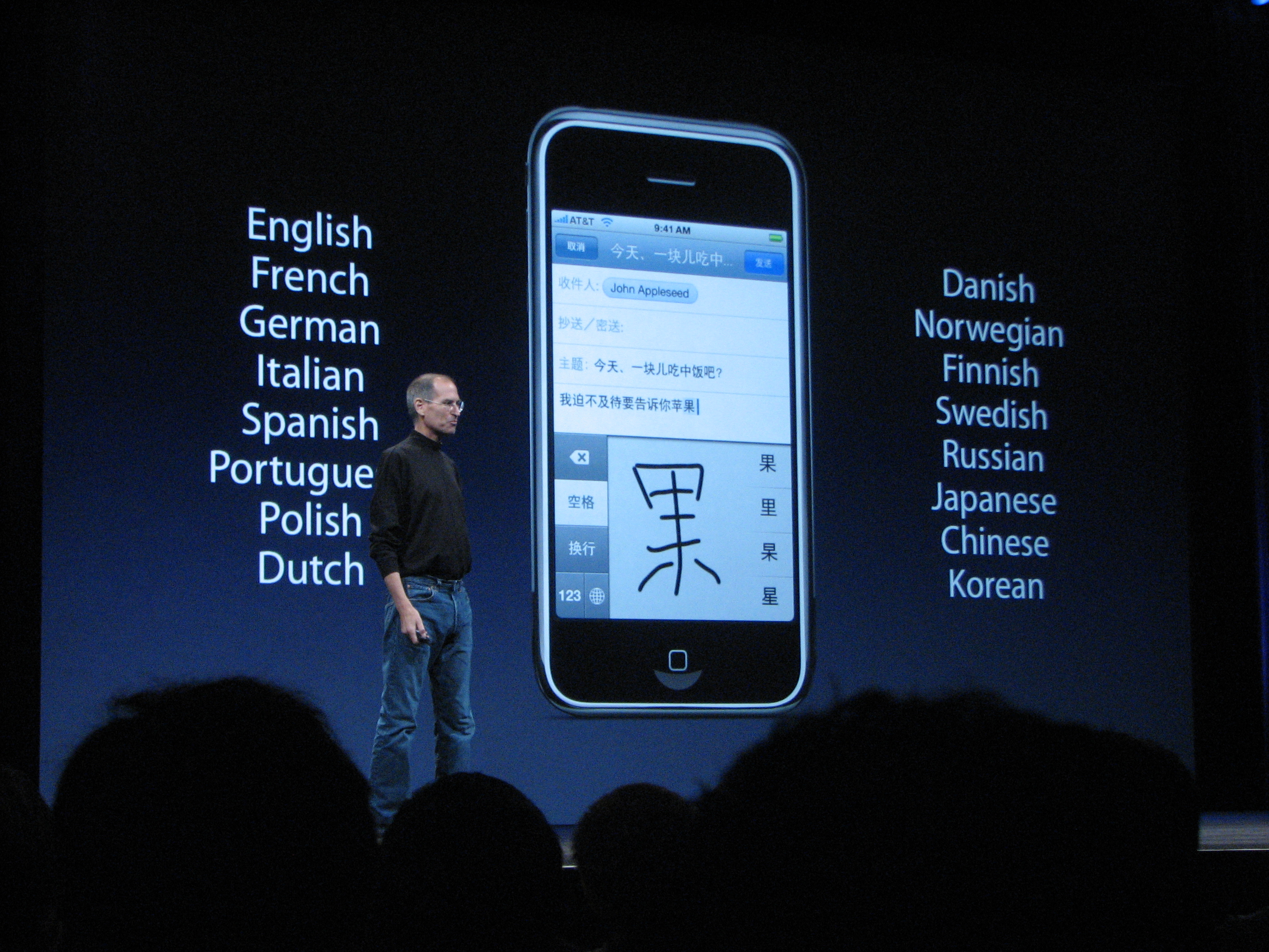 Steve Jobs at WWDC 2008 discussing language support included in iPhone OS (now iOS) 2.0.